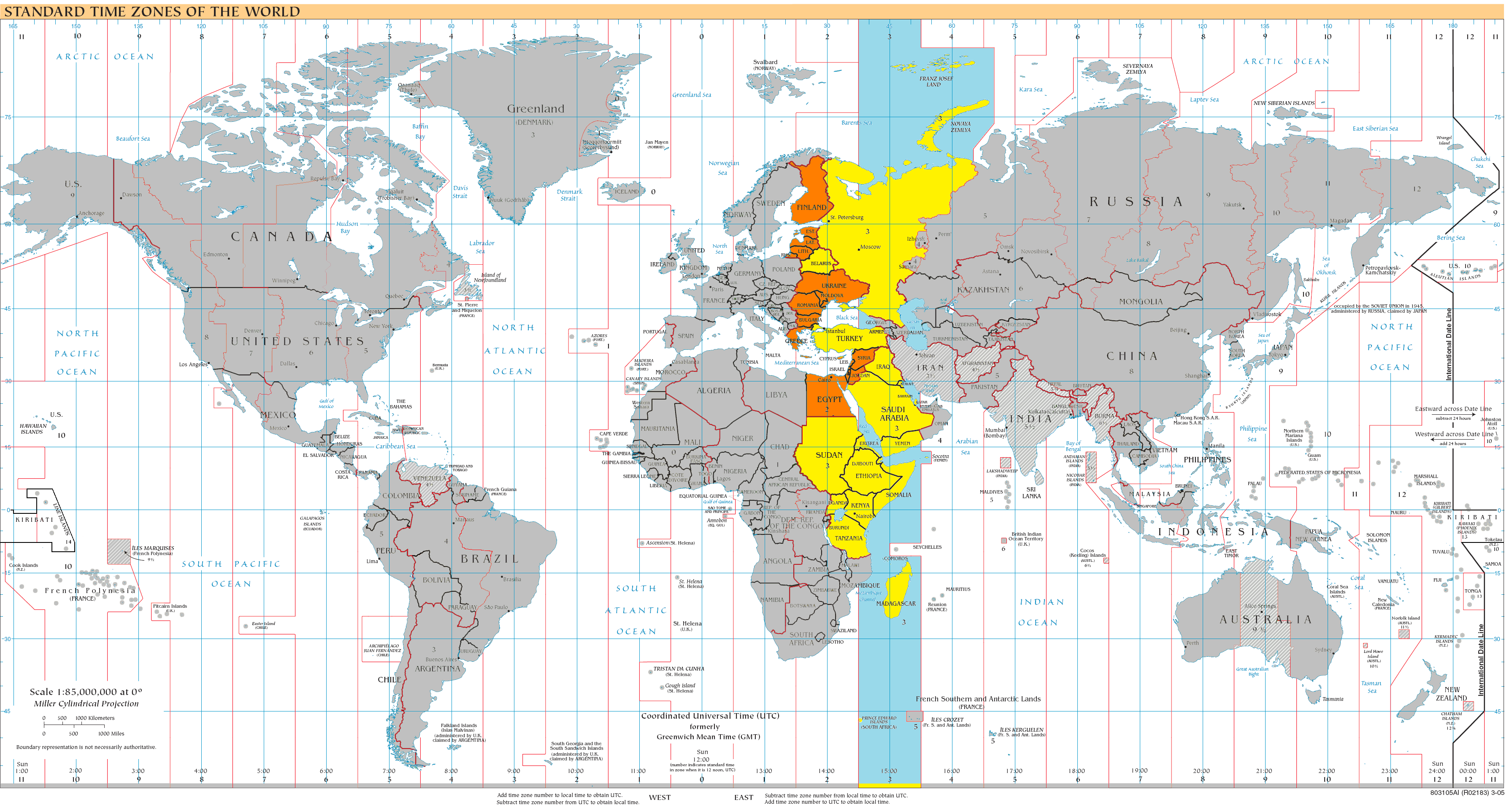 World map of time zones as of 2008, on the Miller Cylindrical Projection and with highlighted UTC+3 zone. Dark Blue - UTC+3 during Northern Winter / Southern Summer Orange - UTC+3 during Northern Summer / Southern Winter Yellow - UTC+3 all year round Light Blue - UTC+3 sea areas